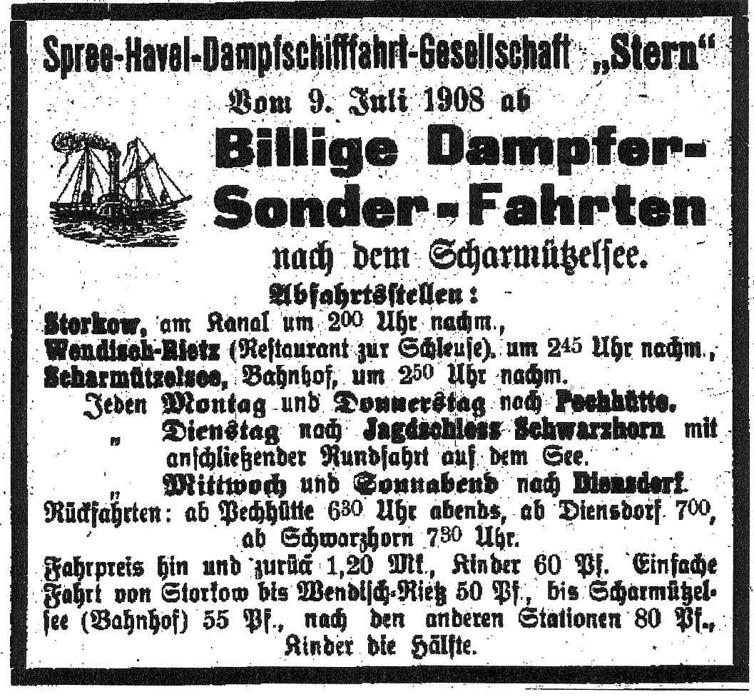 Advertisement of the shipping company Spree-Havel-Dampfschiffahrt-Gesellschaft-Stern (predecessor company of Stern und Kreisschiffahrt Berlin and Weisse Flotte Potsdam) from 1908 about steamboat trips from the Storkower Kanal via Wendisch Rietz to the Scharmützelsee, District Oder-Spree, Brandenburg, Germany.